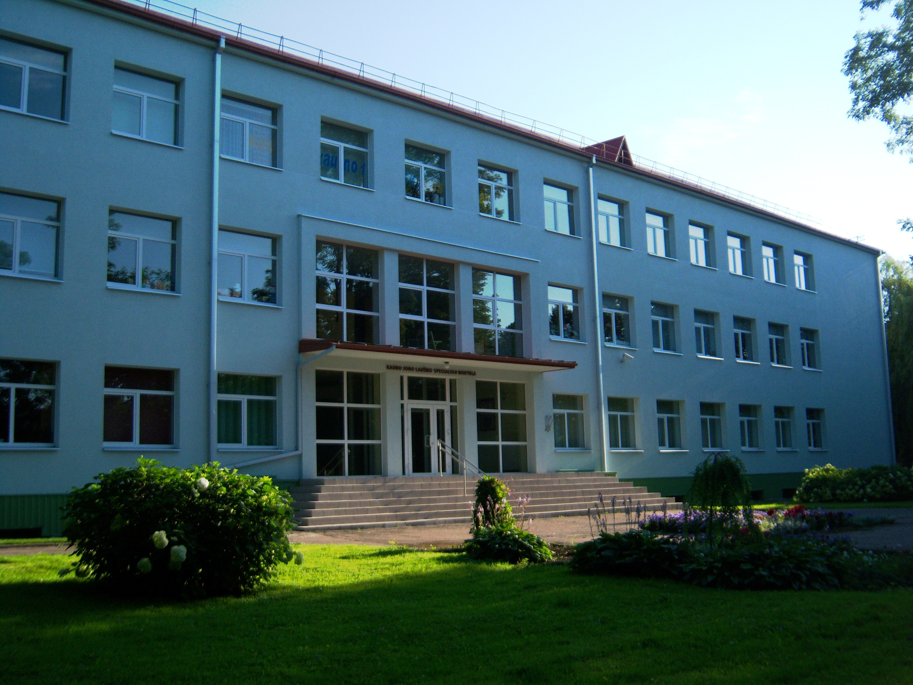 Jonas Laužikas special school, Kaunas, Lithuania